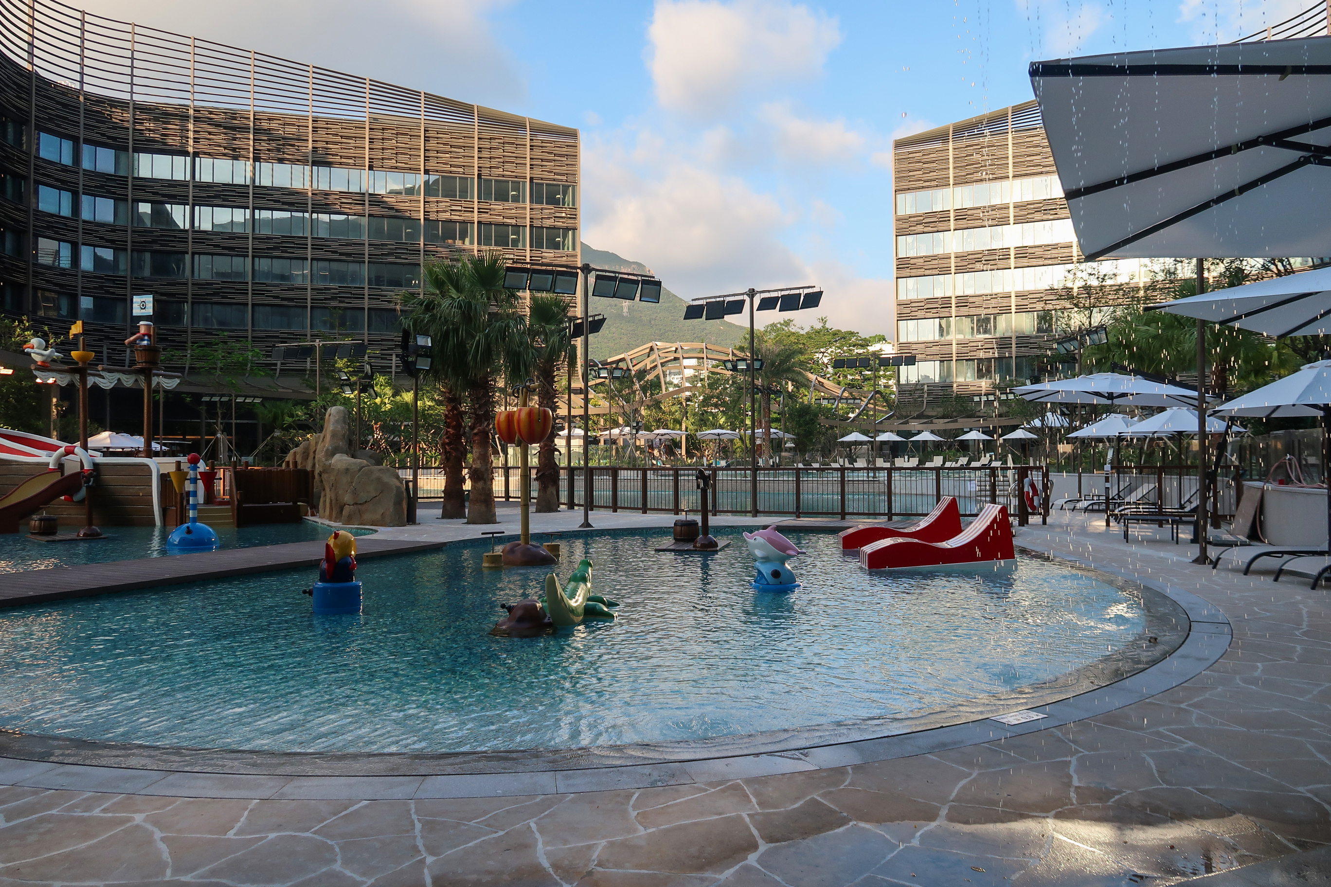 Ocean Park Marriott Hotel